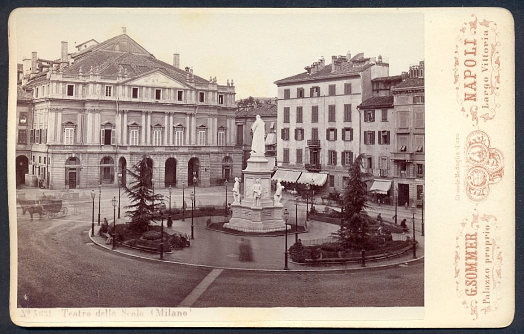 Giorgio Sommer (1834-1914), "The Scala at Milan". Catalogue number: 5831.